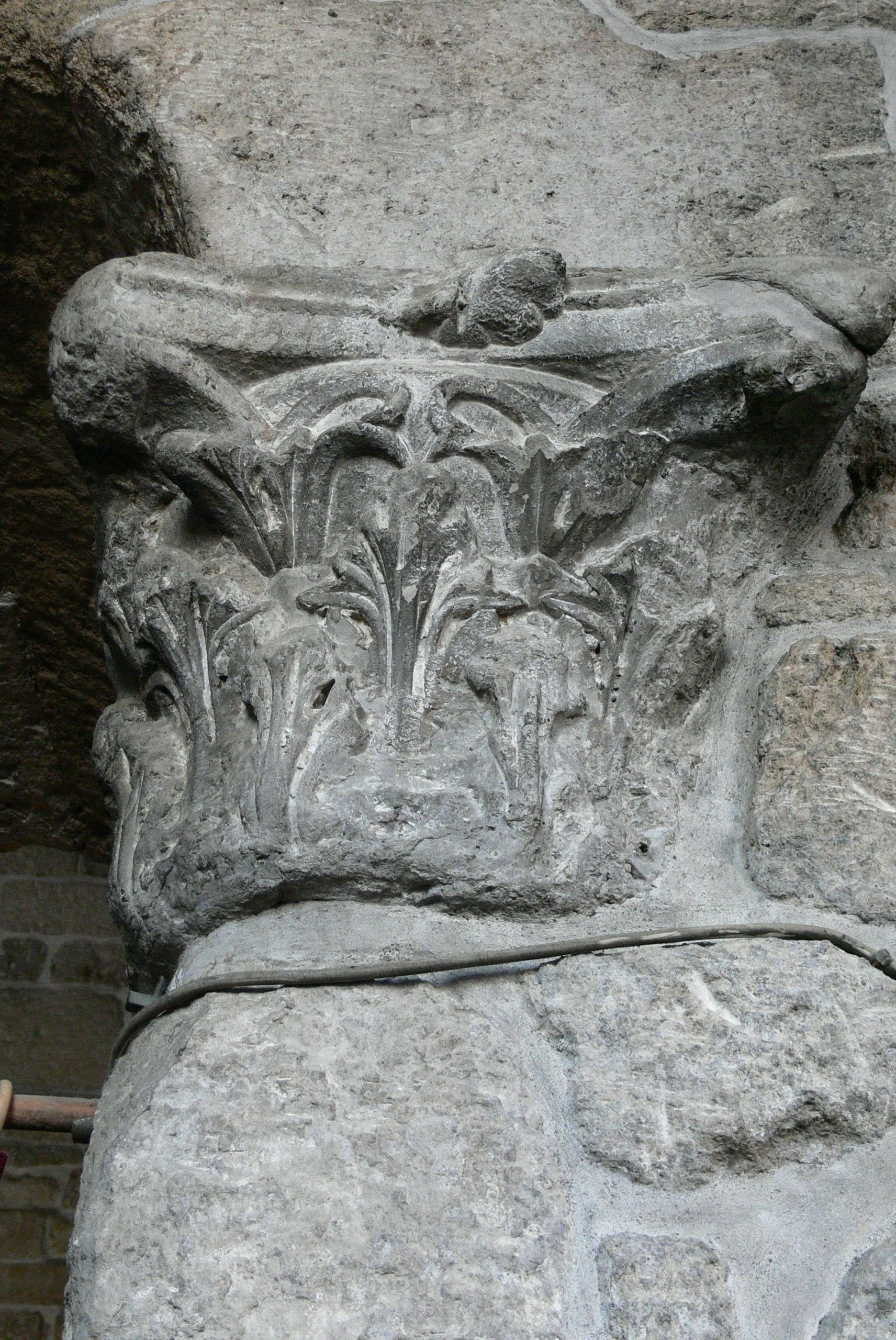 Larnaca ( Cyprus ). Saint Lazarus Cathedral: Ancient Roman capital from Kition, used as spolium in the church.